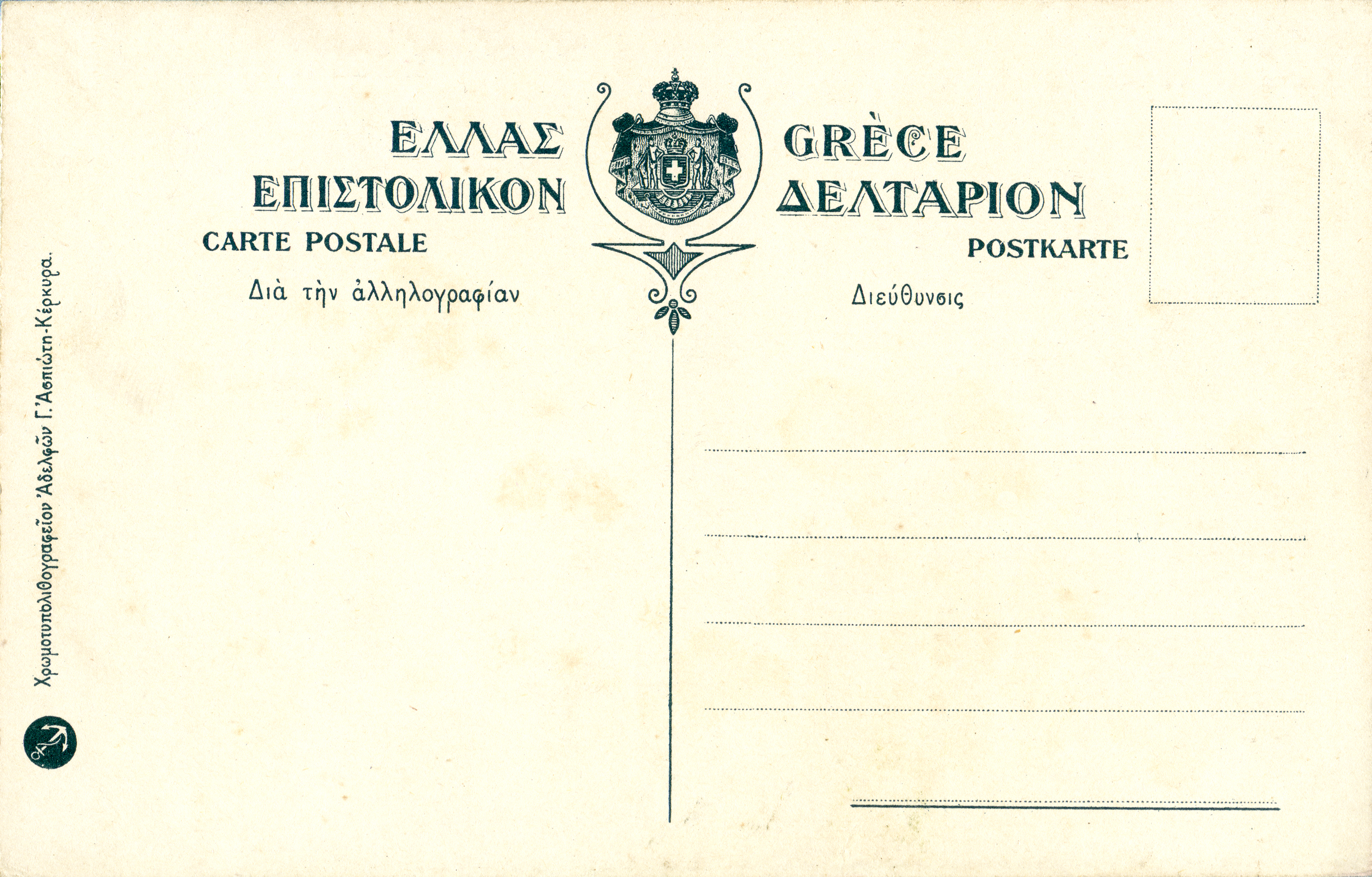 The rear side of a postcard published by Aspiotis. Type P1.